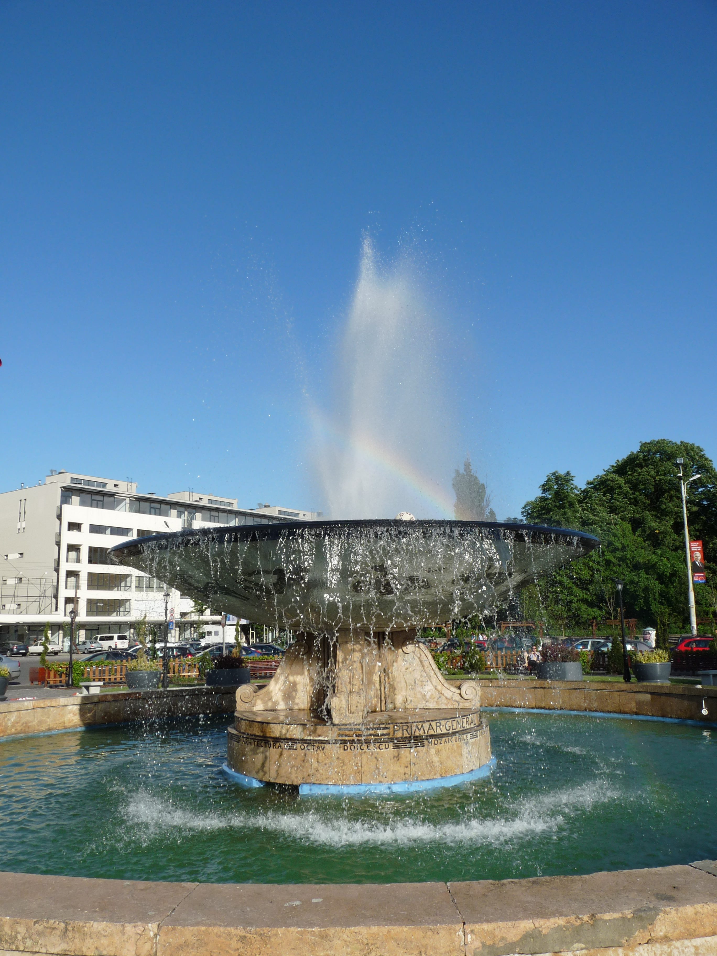 Zodiac fountain, in front of Carol Park in Bucharest, RomaniaRomână: Fântâna Zodiac, din faţa Parcului Carol, Bucureşti, România